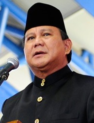 Prabowo Subianto, Indonesian military and politician